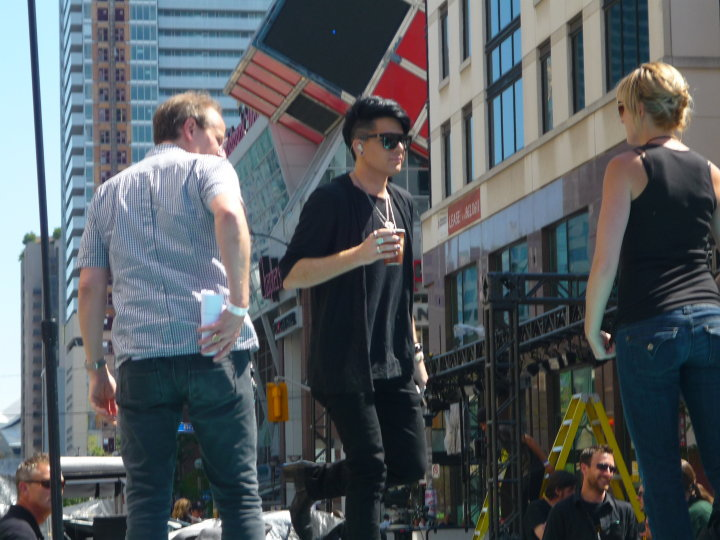 Adam Lambert at the soundcheck for the 2010 MusicMusic Video Awards.